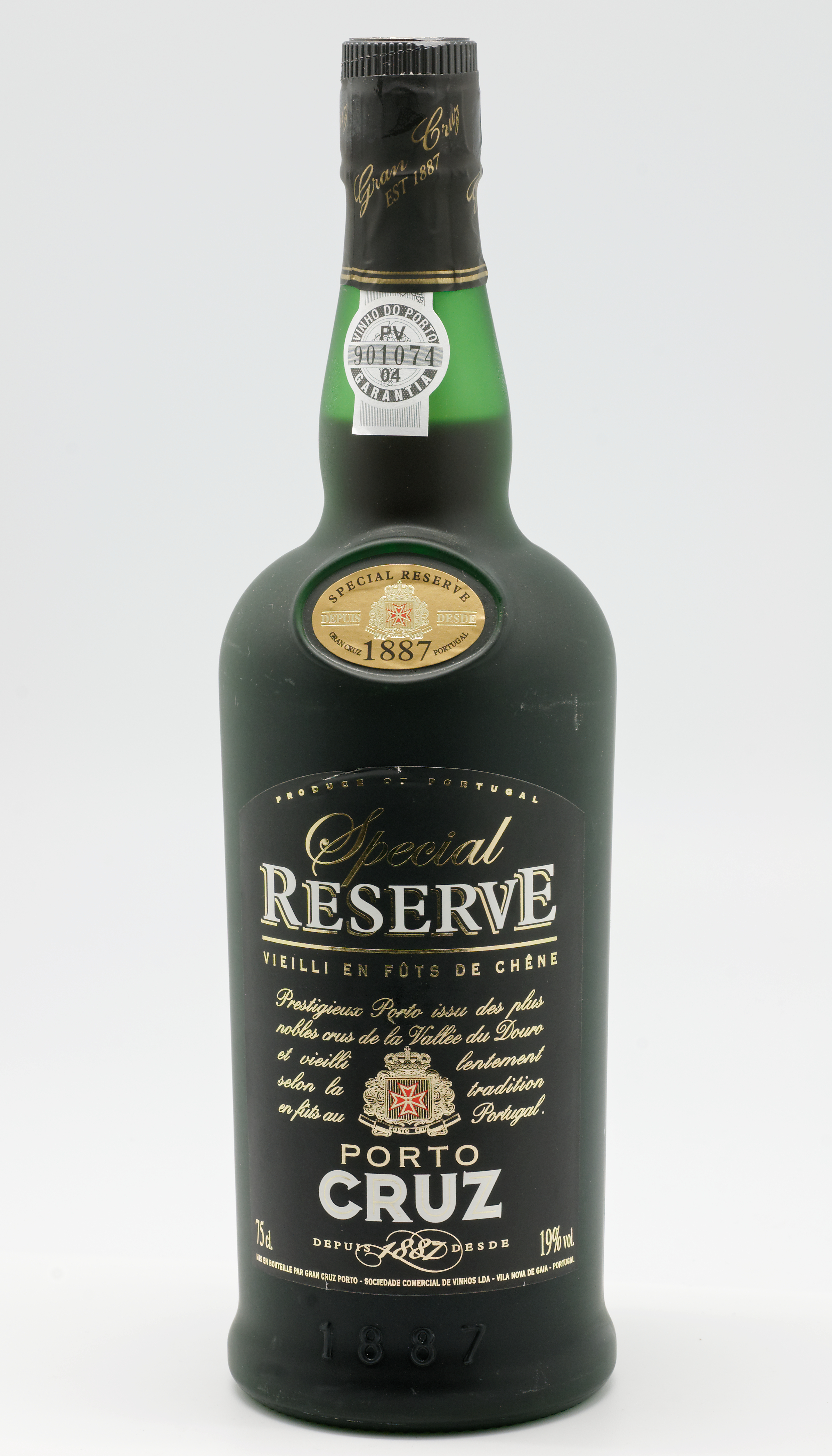 A bottle of Port Cruz special reserve.